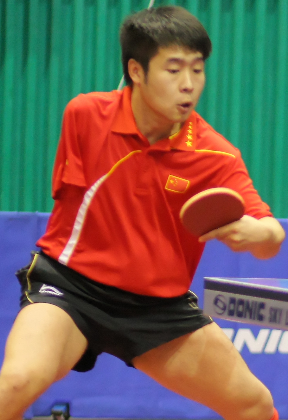 Ma Lin